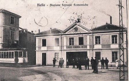 Biella FEB railway station